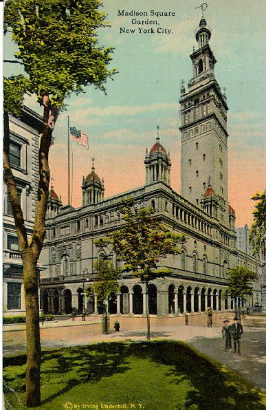 Postcard of Madison Square Garden II